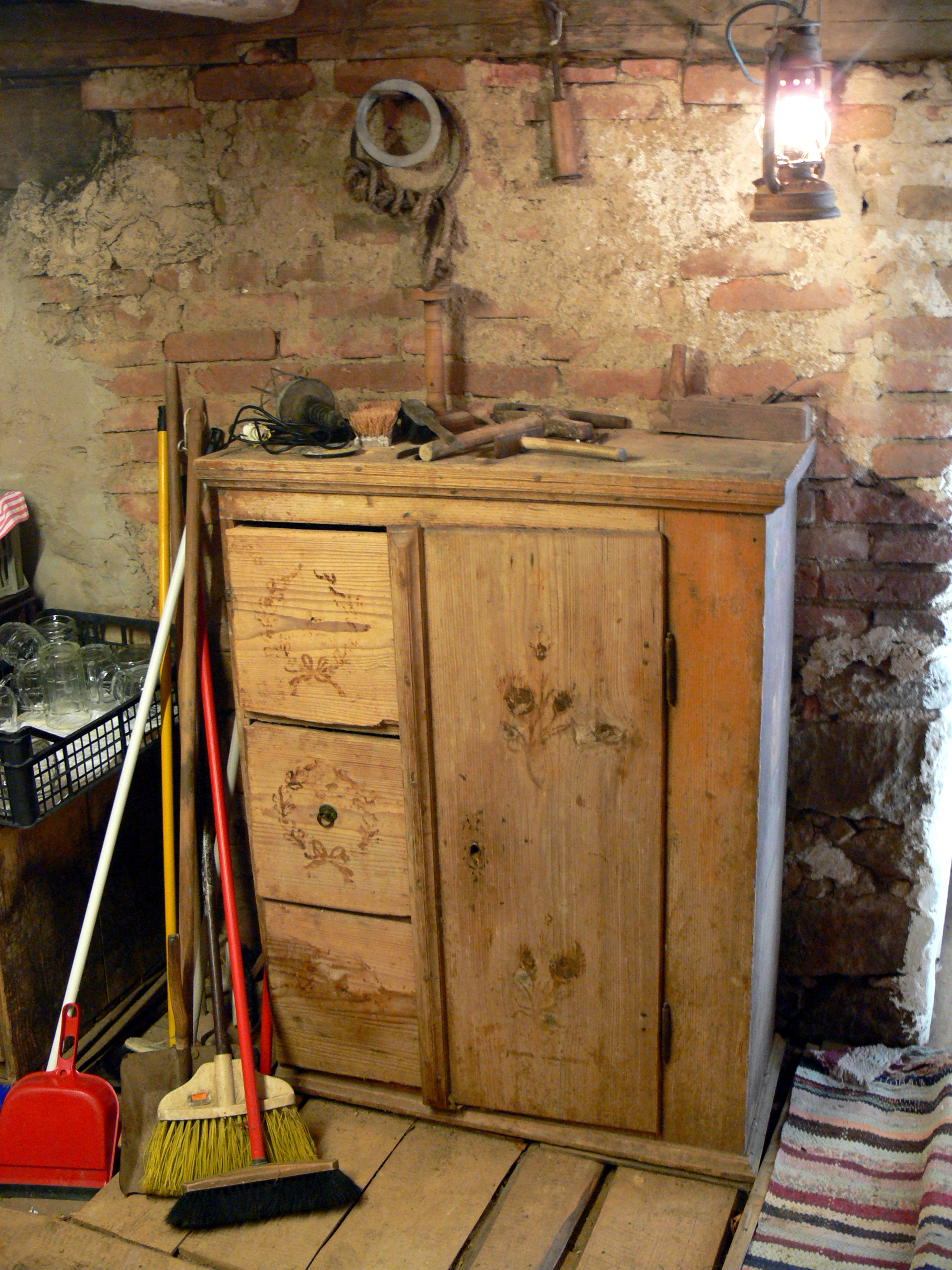 Brezerhaus in Sarleinsbach. Old chifforobe.